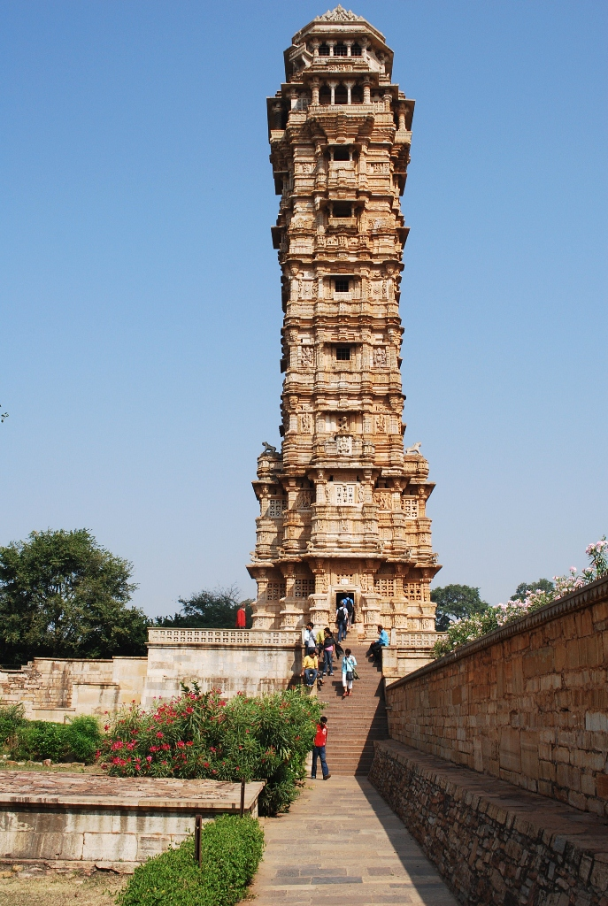 Victory Tower at Chittorgarh, Rajasthan